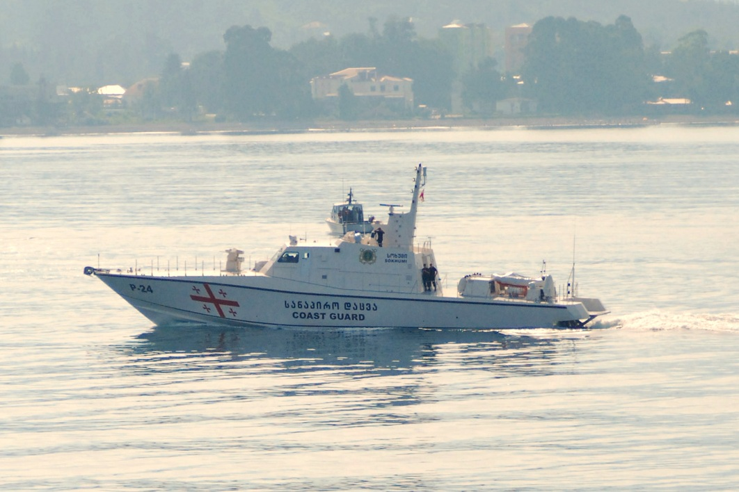 080824-N-4044H-012 BATUMI, Republic of Georgia (Aug. 24, 2008) Georgian coast guard vessel P-24 Sokhumi, a Turkish built MRTP 33 (KAAN 33 class) Fast Patrol Craft, passes in front of the guided-missile destroyer USS McFaul (DDG 74) upon its arrival to the port of Batumi.